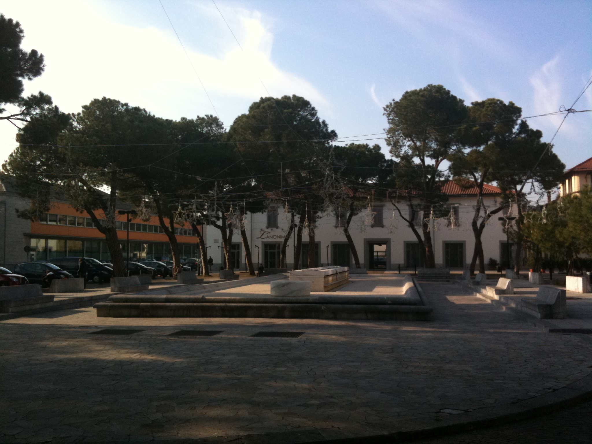 Piazza Caduti 6 luglio 1944 (bombardamento di Dalmine)